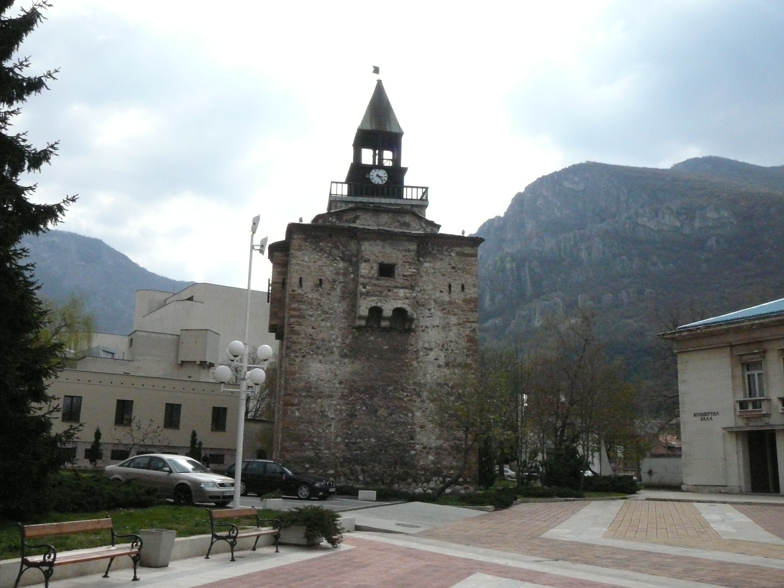 Meshtchiite Tower in Vratsa, Bulgaria